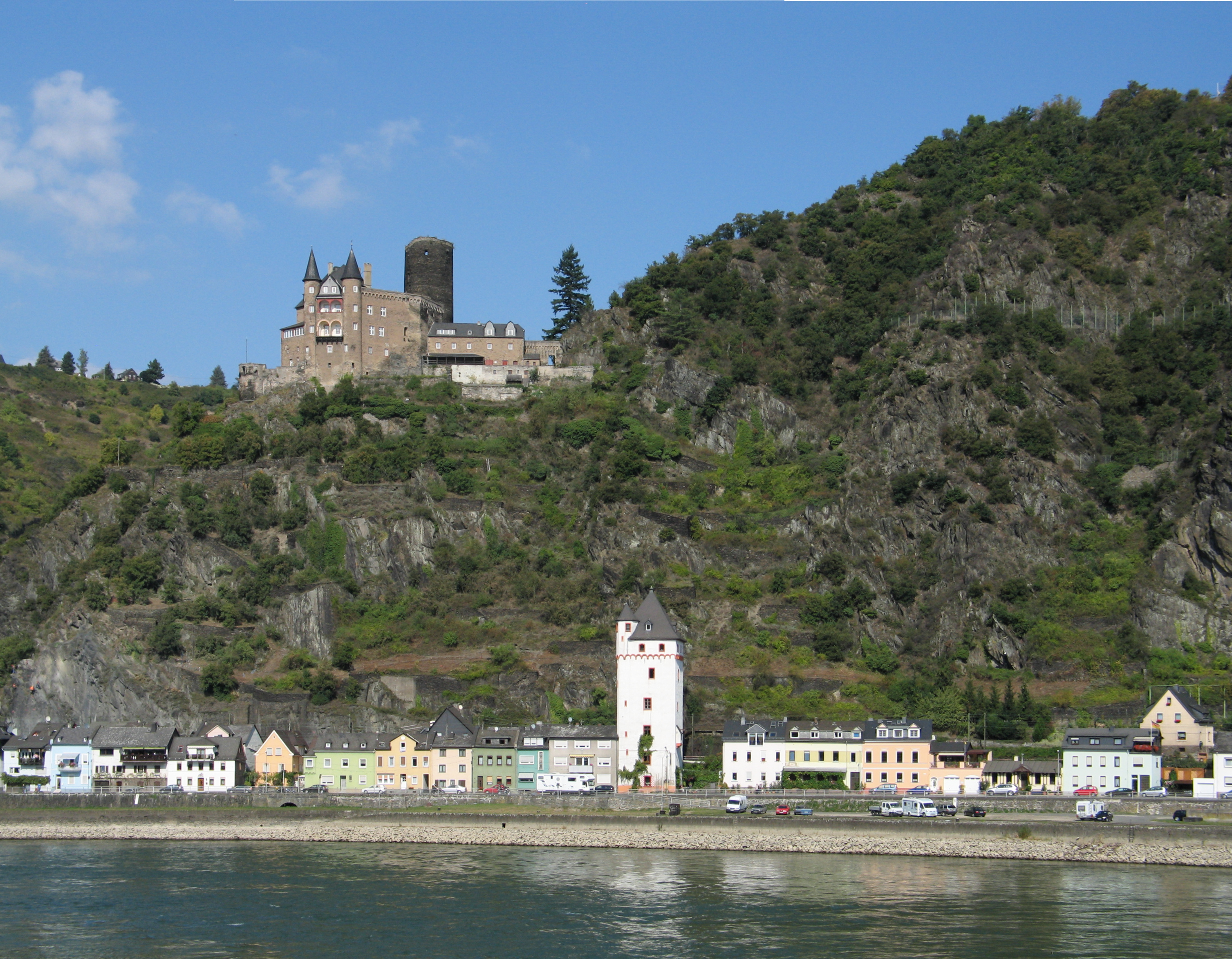 Sankt Goarshausen with "Katz" castle, UNESCO World Heritage Site Upper Middle Rhine, Germany.